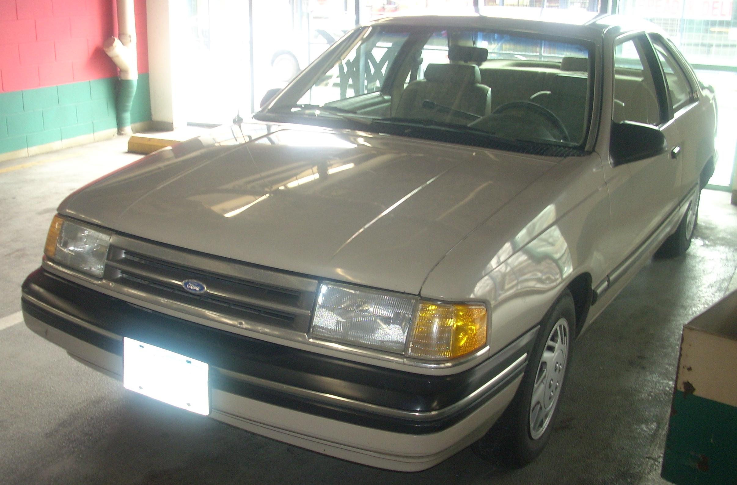 1988-1991 Ford Tempo photographed in New Westminster, British Columbia, Canada.